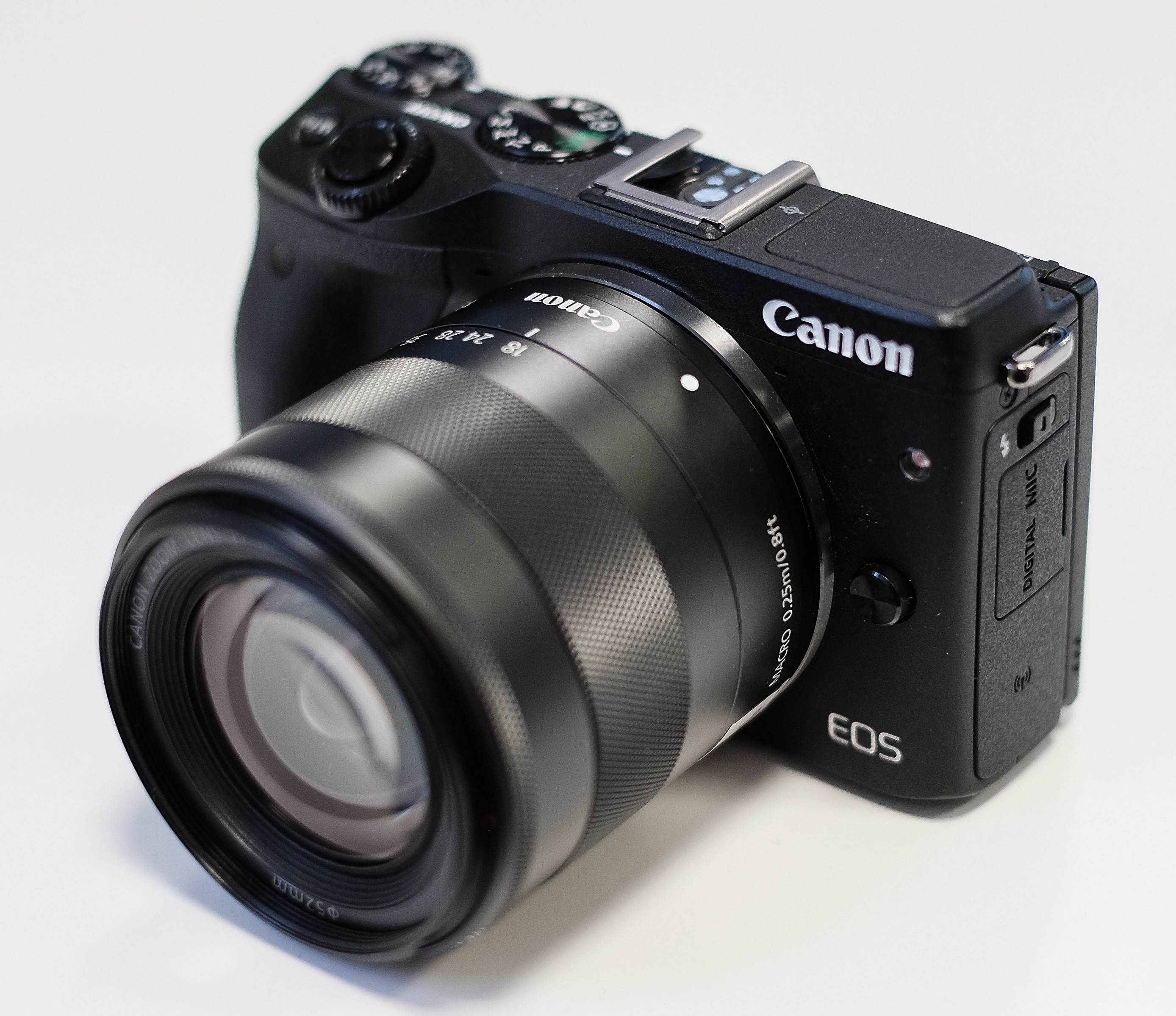 Canon EOS M3 with 18-55mm lens